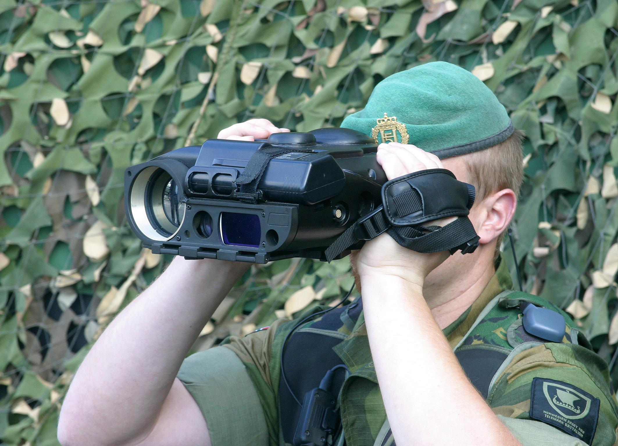 The Sophie thermal binoculars are a family of hand held thermal cameras produced by Thales. The Sophie family is designed for use on military operations, peacekeeping operations, border surveillance and many other applications. They allow the detection, recognition, identification and location of day and night targets even in adverse conditions such as fog, wind and dust, or facing sunlight. They equally allow the transfer of information to Command & Control (C²) Centres.